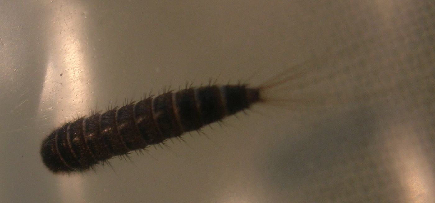 Larva could be genus Attagenus